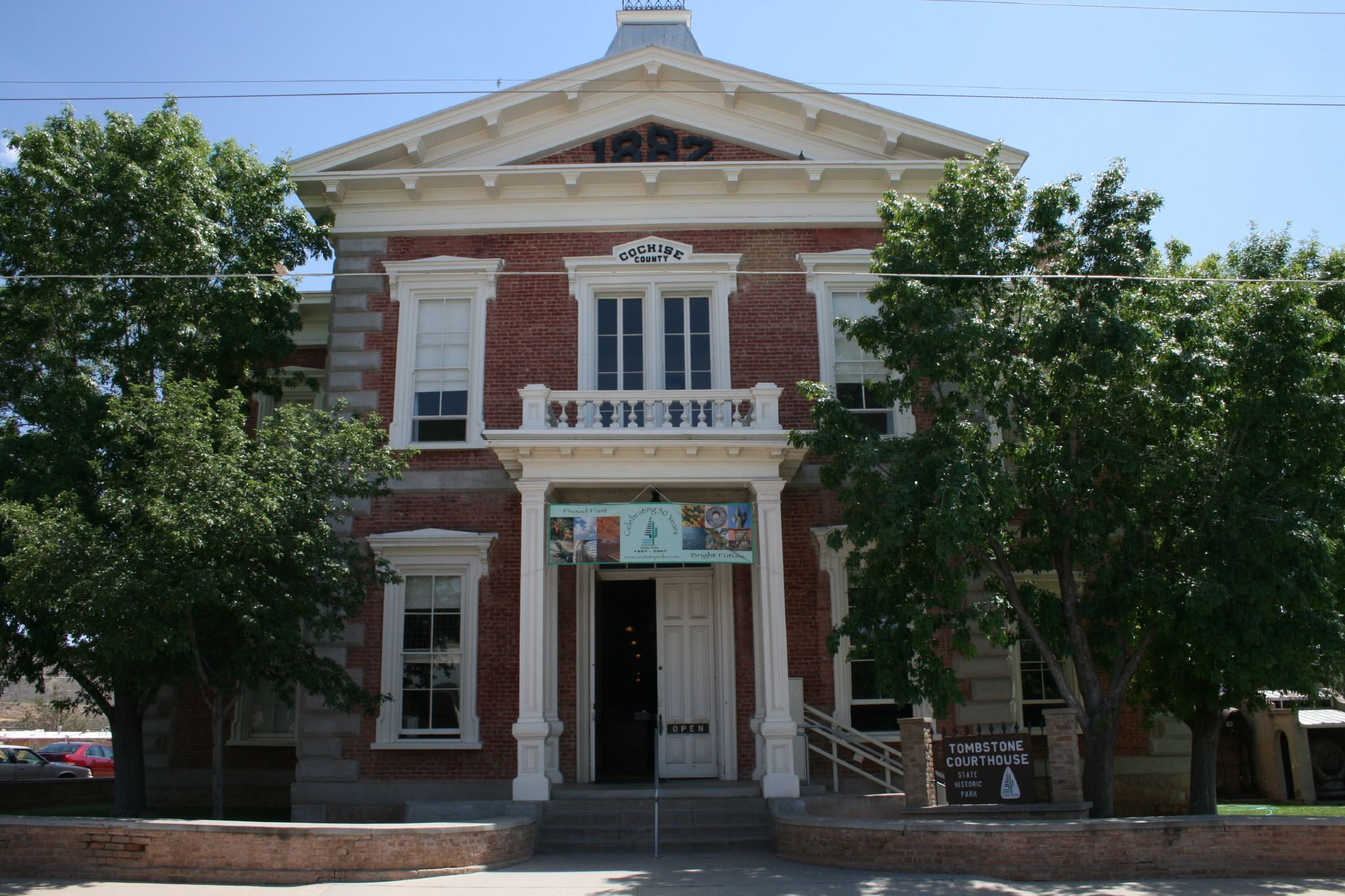 Historic courthouse of Tombstone.